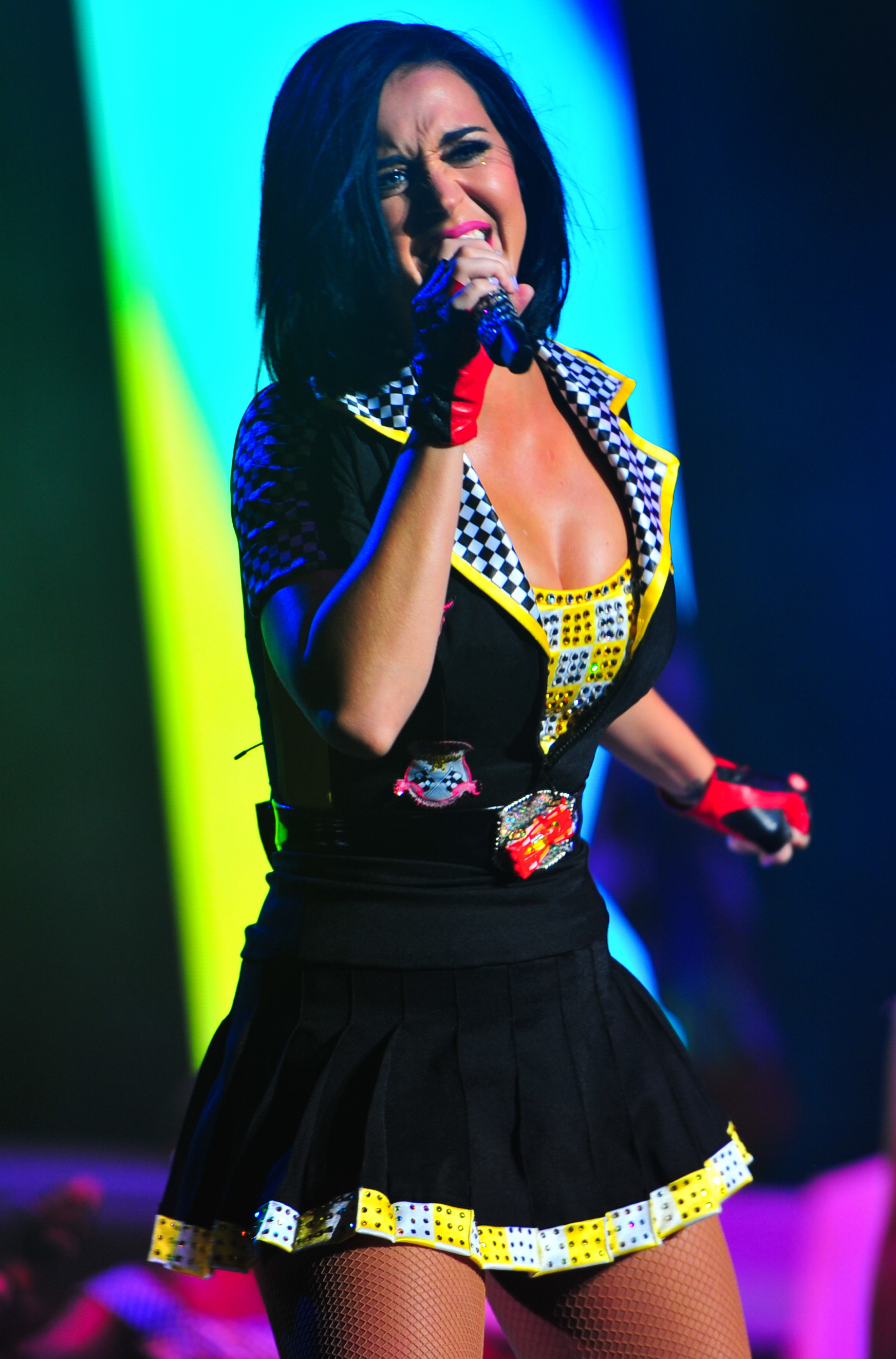 Katy Perry performing in California Dreams Tour, September 2012.